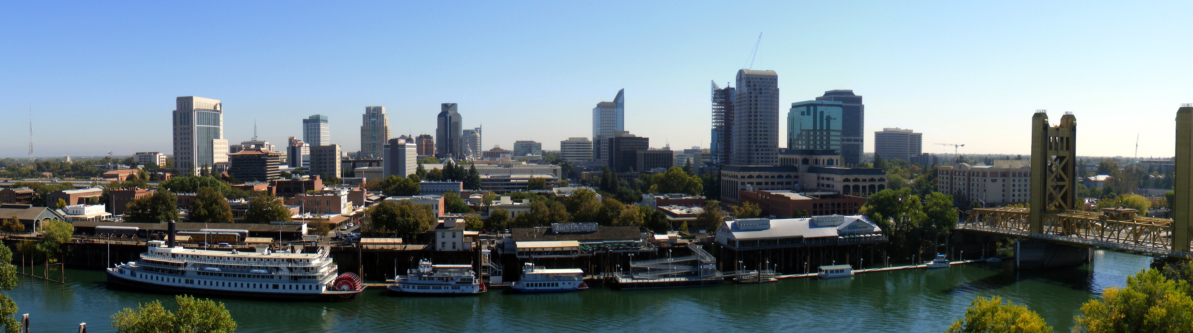 The Sacramento skyline, as seen from The Ziggurat in West Sacramento, California. The building is occupied by California Department of General Services who were very generous in their time in permitting me use their balcony.